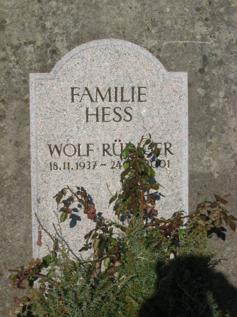 Family grave of the Hess family